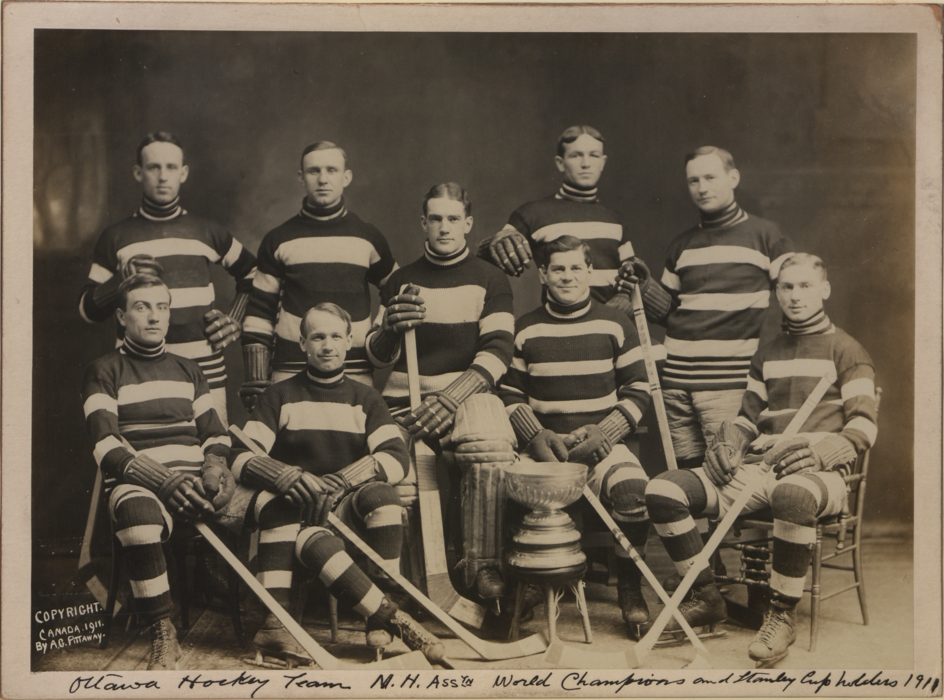 Ottawa Hockey Team, N.H. Association World Champions and Stanley Cup Holders, 1911.Top row, left to right: Alex Currie, Hamby Shore, Jack Darragh, Bruce Stuart.Front row, left to right: Marty Walsh, Bruce Ridpath, Percy LeSueur, Fred Lake, Albert "Dubbie" Kerr.